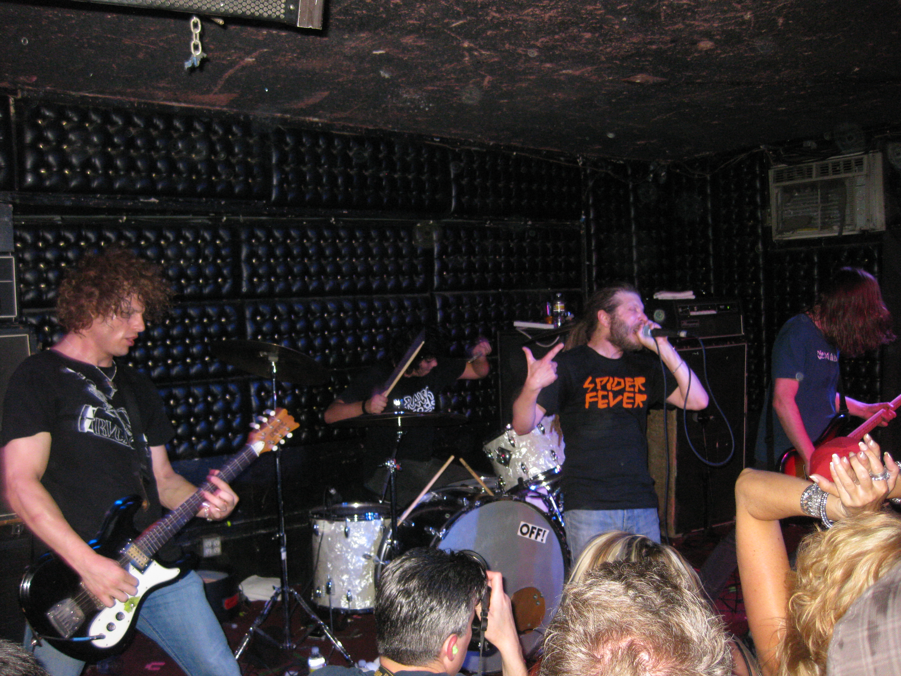 Off! performing May 14, 2012 at The Casbah in San Diego, California. Left to right: guitarist Dimitri Coats, drummer Mario Rubalcaba, singer Keith Morris, and bassist Steven Shane McDonald.